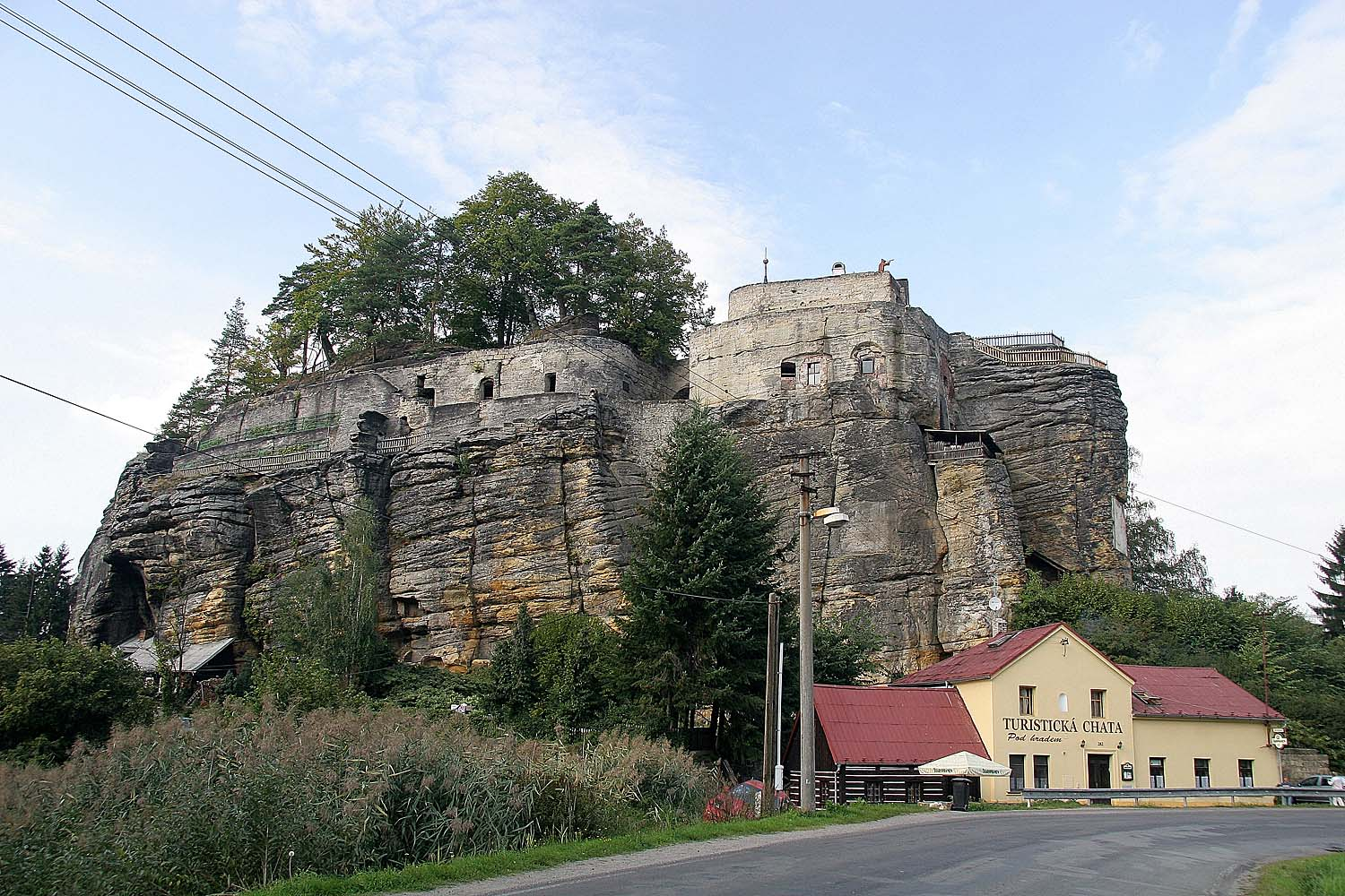 Sloup Castle in village of Sloup v Čechách, Česká Lípa District, Czech Republic. autor:Prazak date: 20. 9. 2004